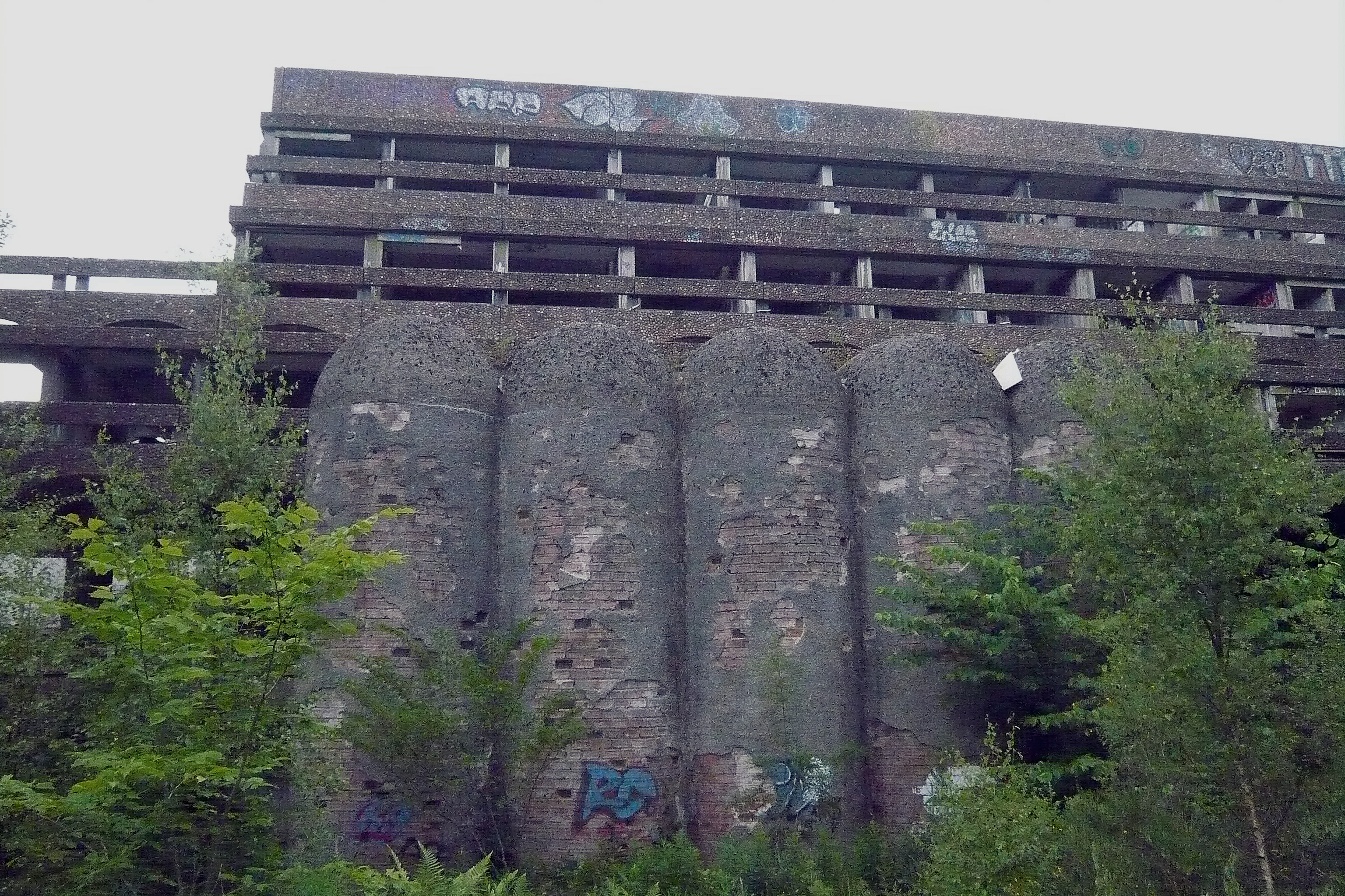 Part of a collection of own work photographs of St Peter's Seminray in Cardross, taken June 2010.